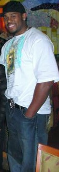 Shad Gaspard pic I took at a meet and greet in Cleveland Ohio.